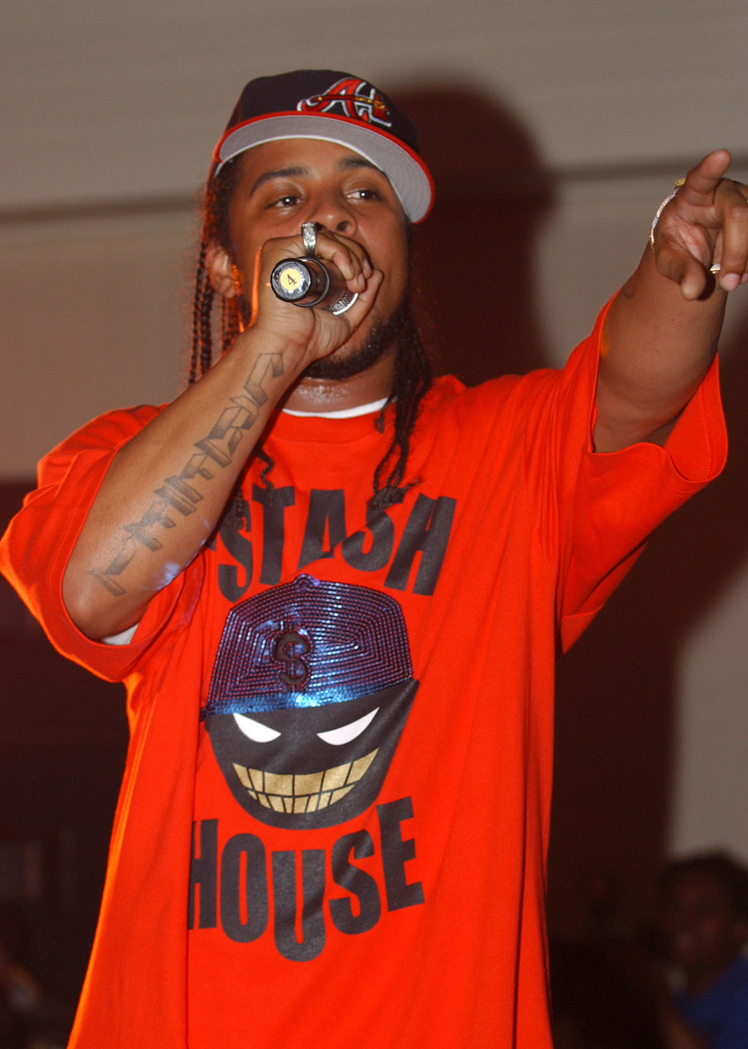 Hip hop artist Sean P performs his song 'Snap Yo Fingers' for a crowd of more than 150 Airmen at Kunsan Air Base, Korea.